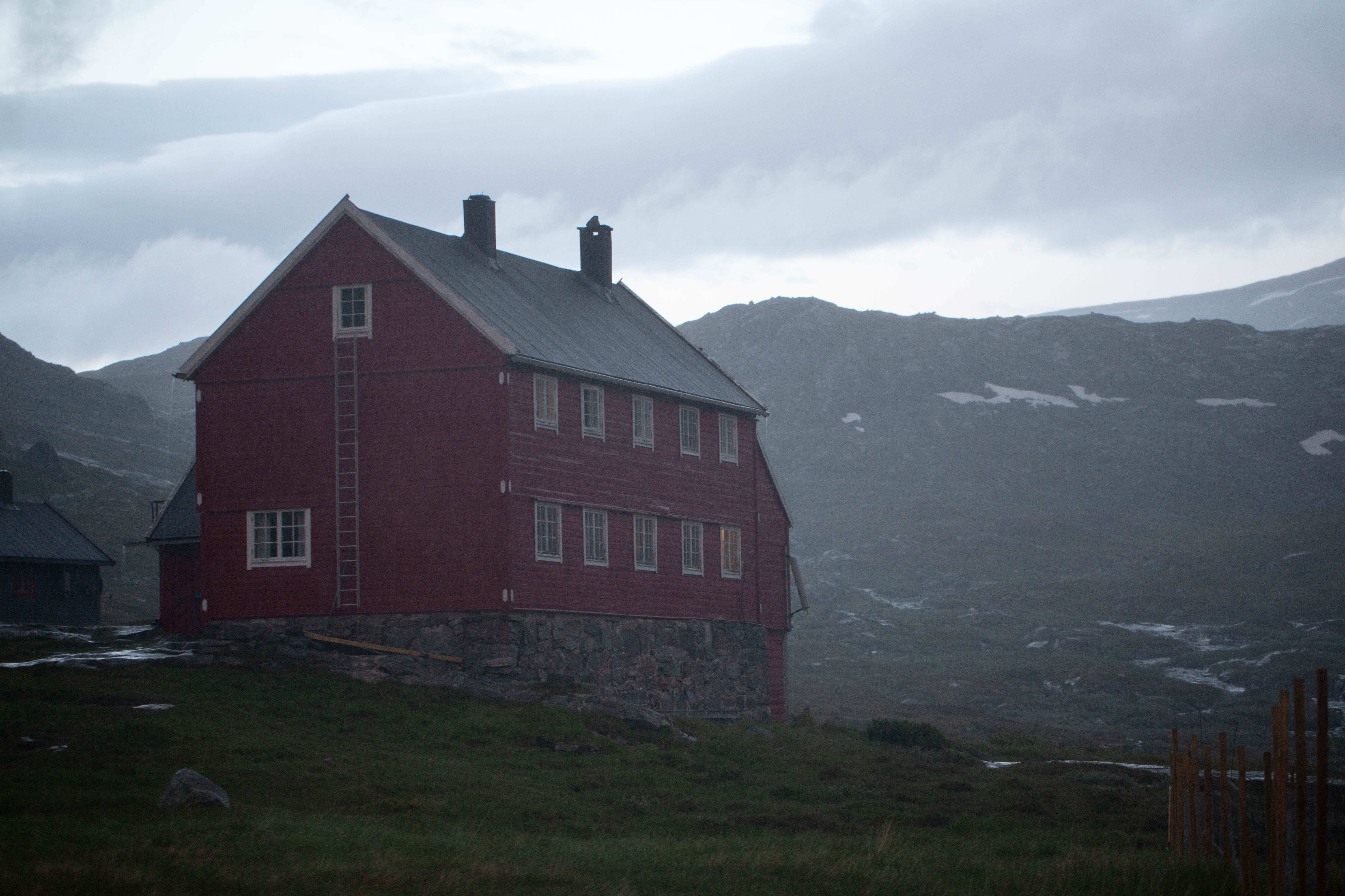 The DNT cabin Stavali at night in Hardangervidda mountain area in Norway